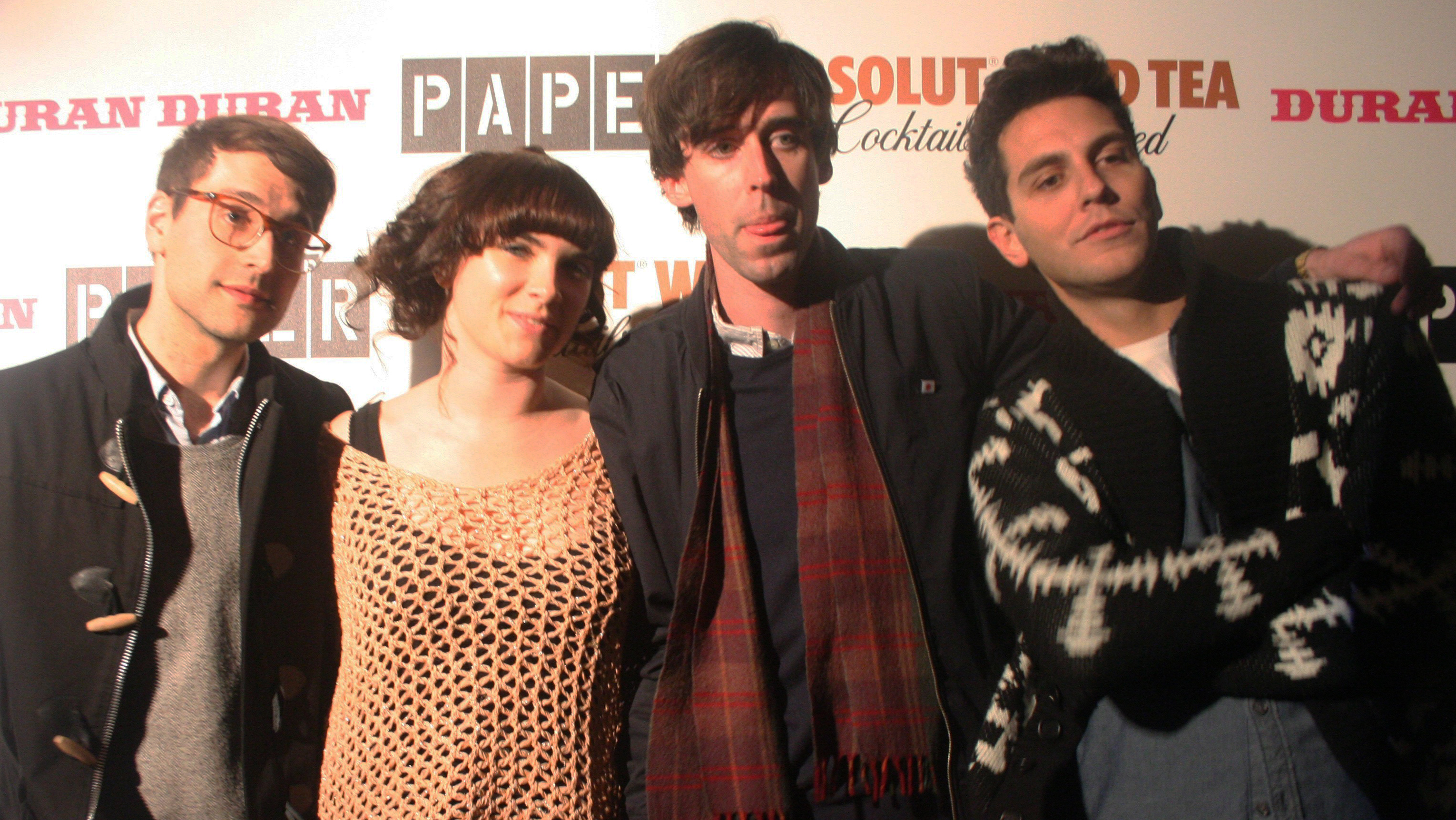 Cobra Starship (from left to right: Alex Suarez, Vicky-T, Ryland Blackington, and Gabe Saporta) at the Paper Magazine Beautiful People Absolut Wild Tea and Paper Party at Hudson, New York City in March 2011.